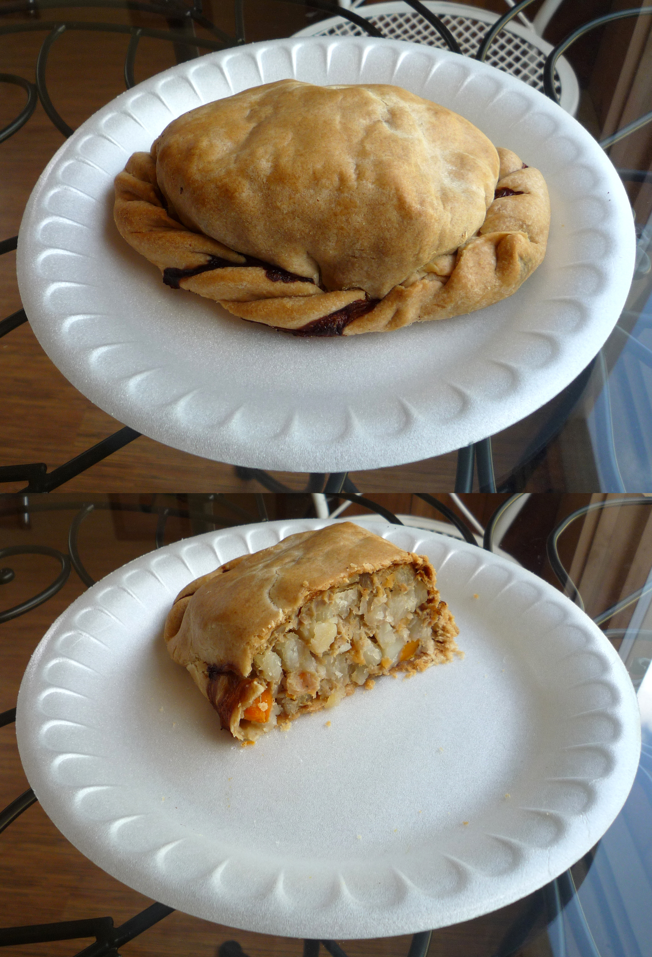 A traditional Yooper pasty (whole and a cross section; a beef pasty). Picked up from Muldoons Pasties, Munising, Michigan, USA.